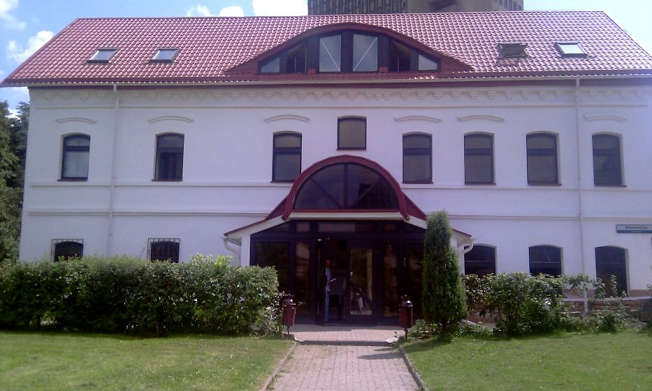 The house No. 3a down the Miasnikoŭ street in Minsk